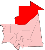 Map of Mauritania showing Tiris Zemmour region.